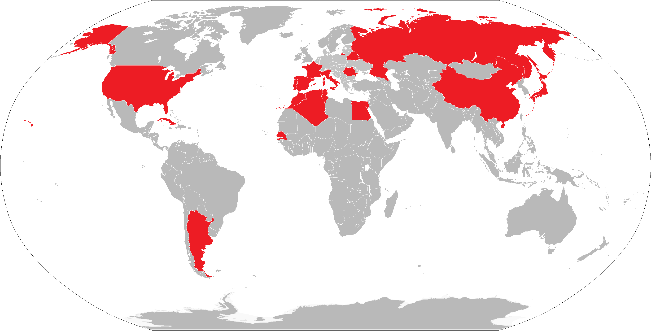 Red areas have an affiliate or cooperating organizations.